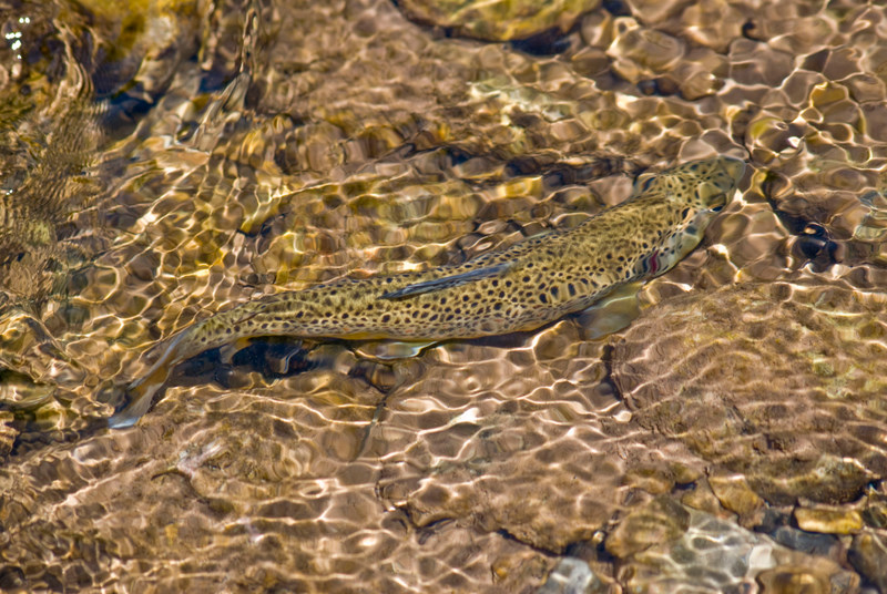 Released brown trout in Willow Creek of Star Valley, Wyoming.